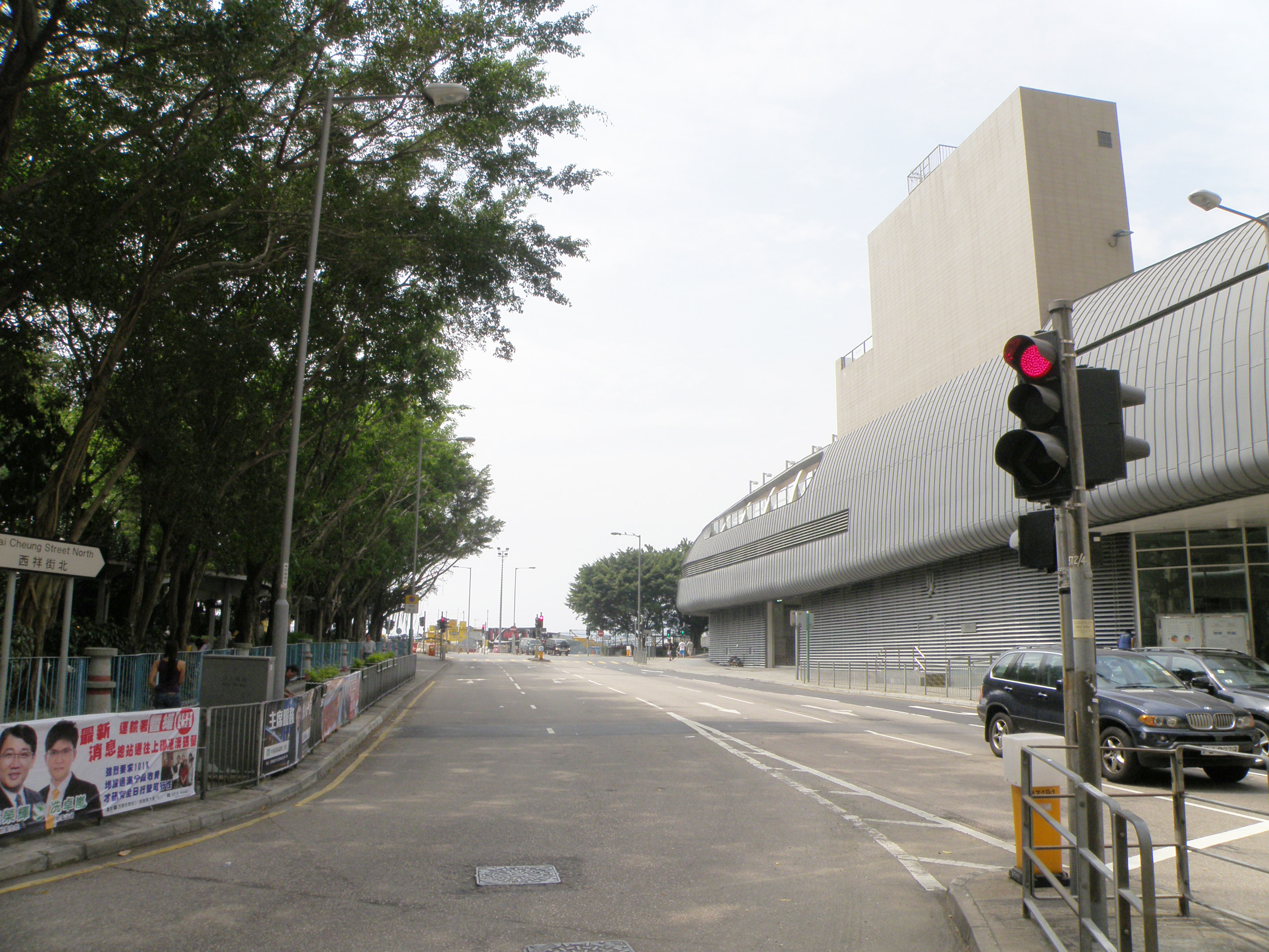 Sai Cheung Street North in Shek Tong Tsui, Hong Kong.